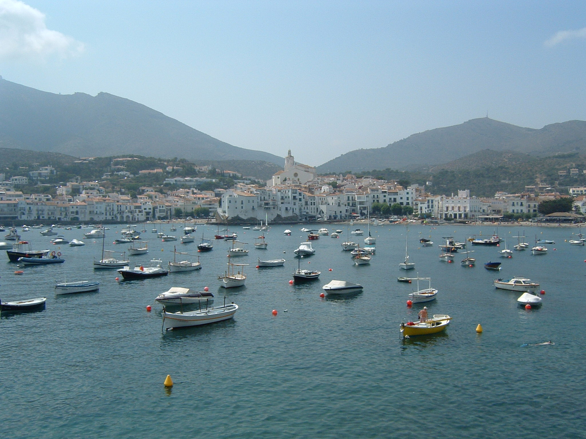 Self made photo of the town of Cadaqués in North-Eastern Spain (Girona, Catalunya).